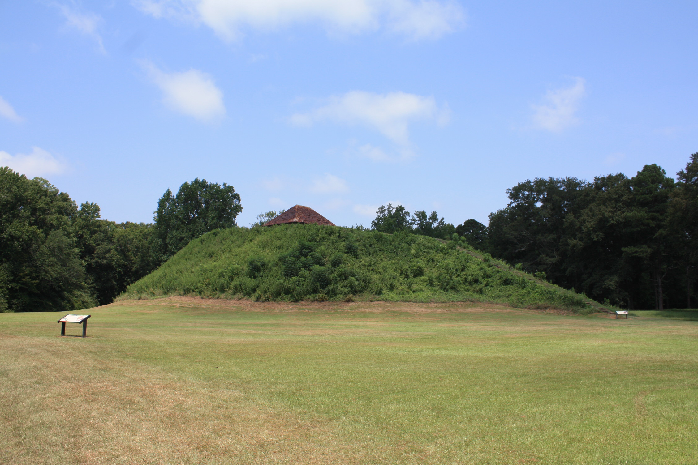 Mound B at the Moundville Archaeological Park in Moundville, Hale County, Alabama, United States.